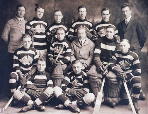 Portrait of the Ottawa Senators. Ottawa Senators, 1914-1915 by George T. Wadds. Back Row: Cosy Dolan (trainer), Jack Darragh, Hamby Shore, Art Ross, Horace Merrill, Frank Shaughnessy (manager) Middle Row: Angus Duford, Sammy Hebert (goalie), Alf Smith (coach), Clint Benedict, Leth Graham Front Row (seated): Edie Gerard (left), Punch Broadbent